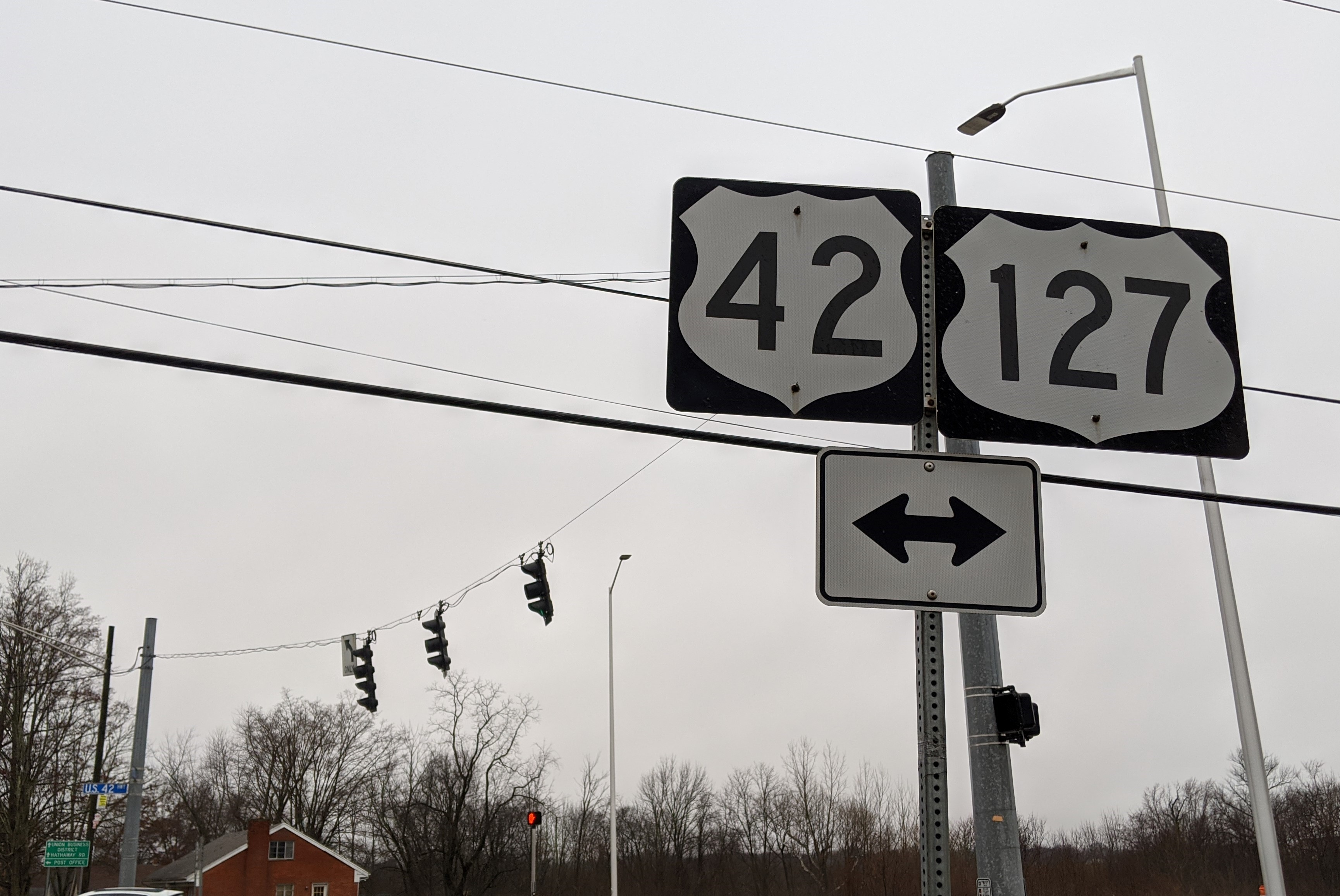 Sign for concurrent US 42/US127 at the KY 536 JCT